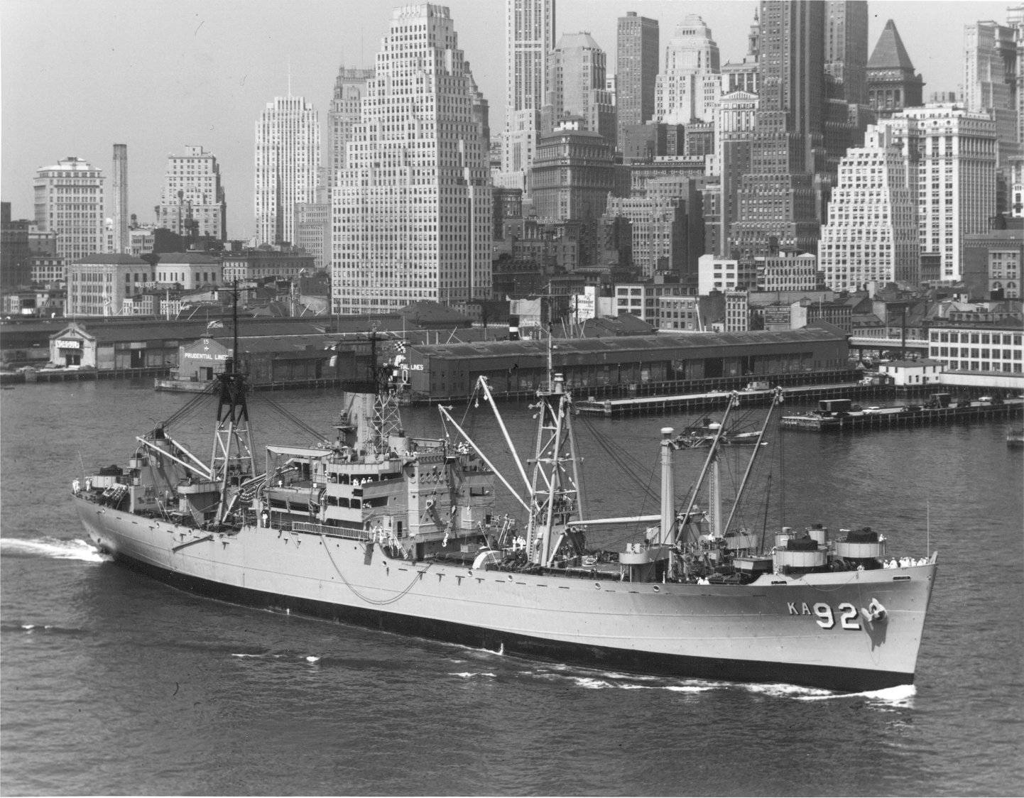 USS Wyandot (AKA-92) Official U.S. Navy photo